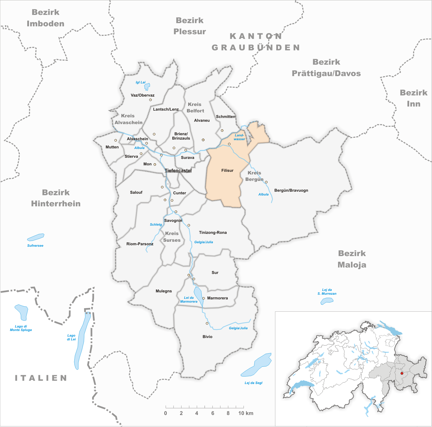 Municipality Filisur